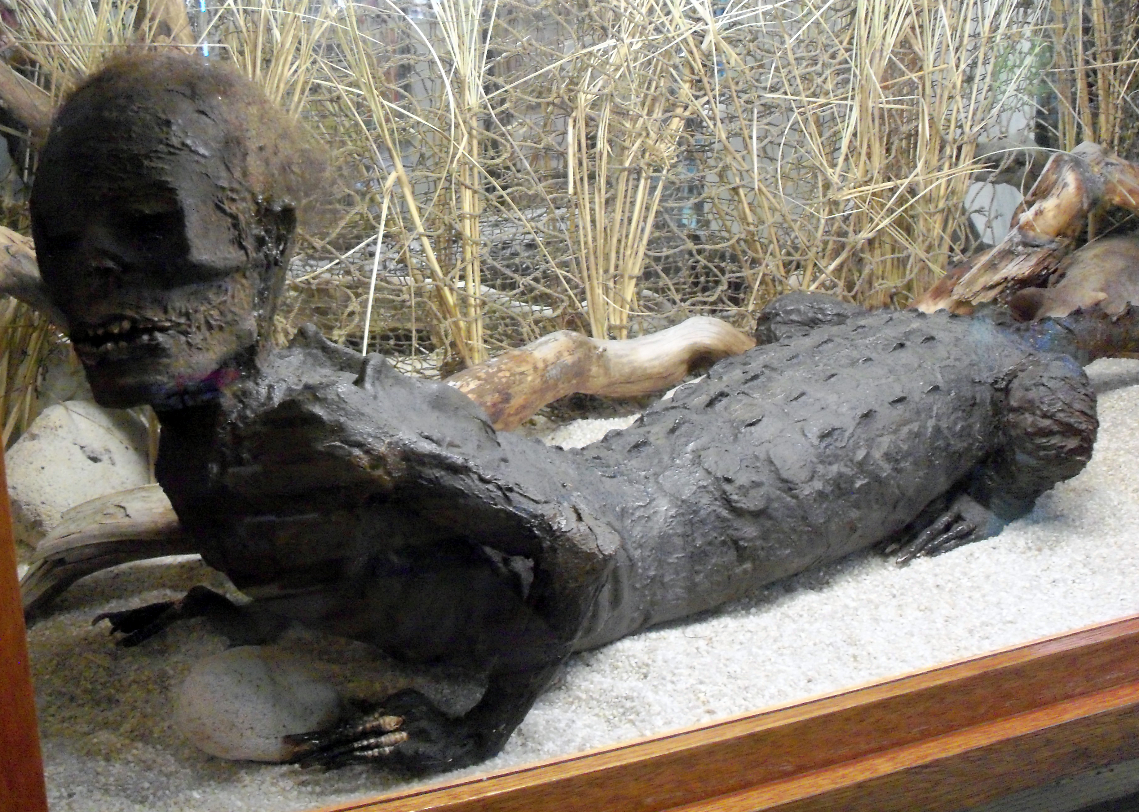 Jake the Alligator Man, a Northwestern pop cultural phenomenon, on display at Marsh's Free Museum in Long Beach. Photo taken April 2009.